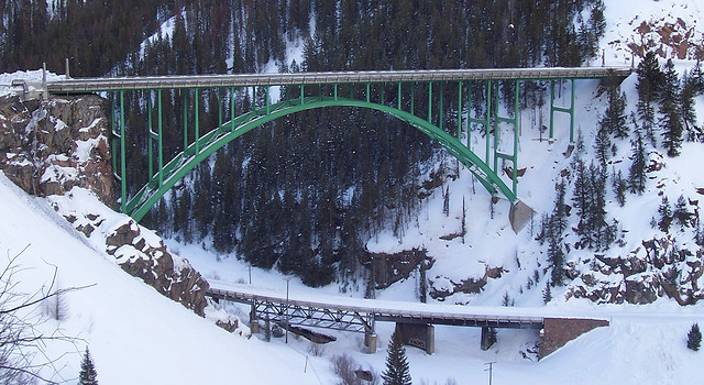 The Eagle River Bridge on US 24 near Redcliff. The smaller bridge underneath is the main road into Redcliff.